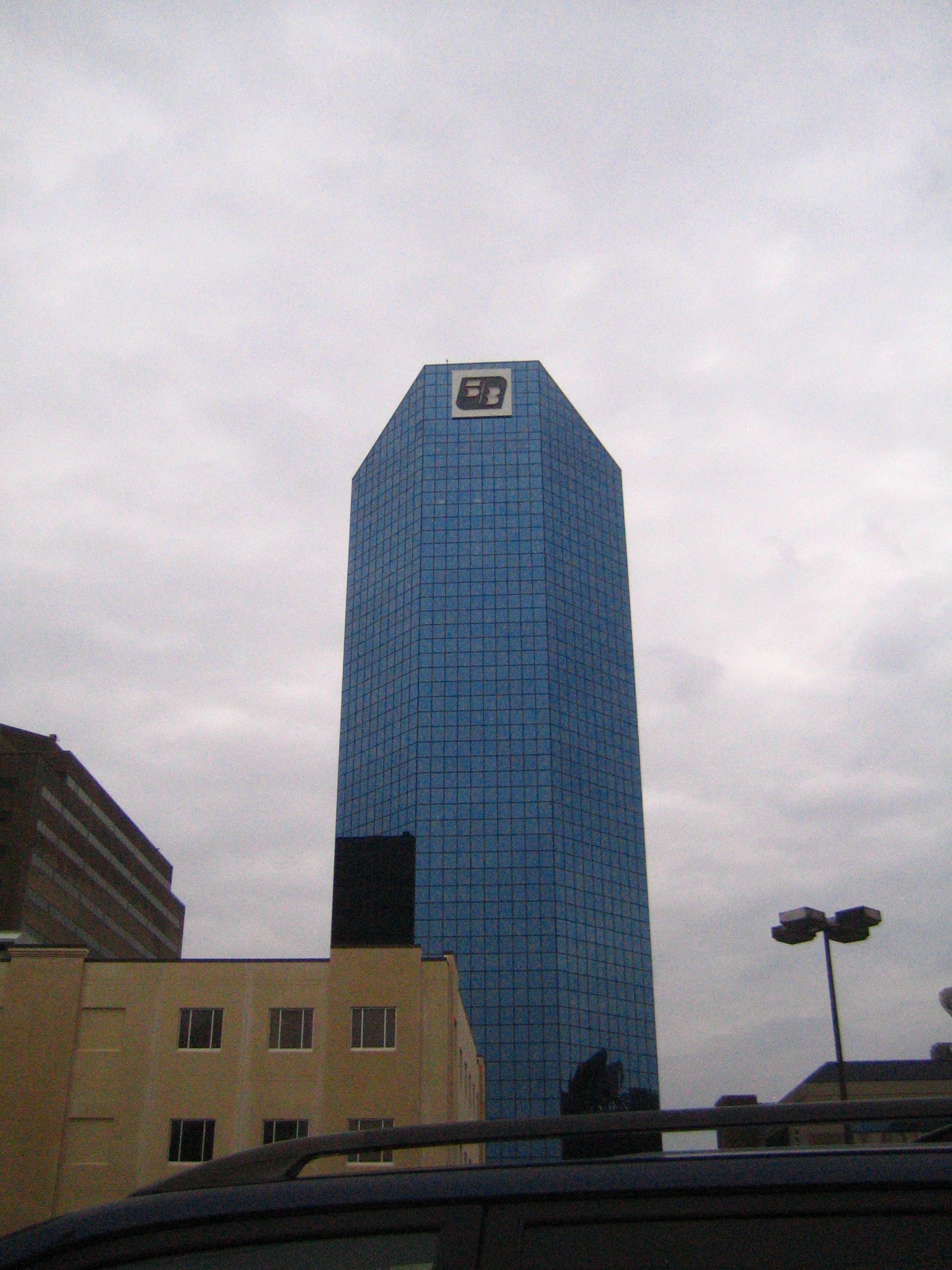 blue building